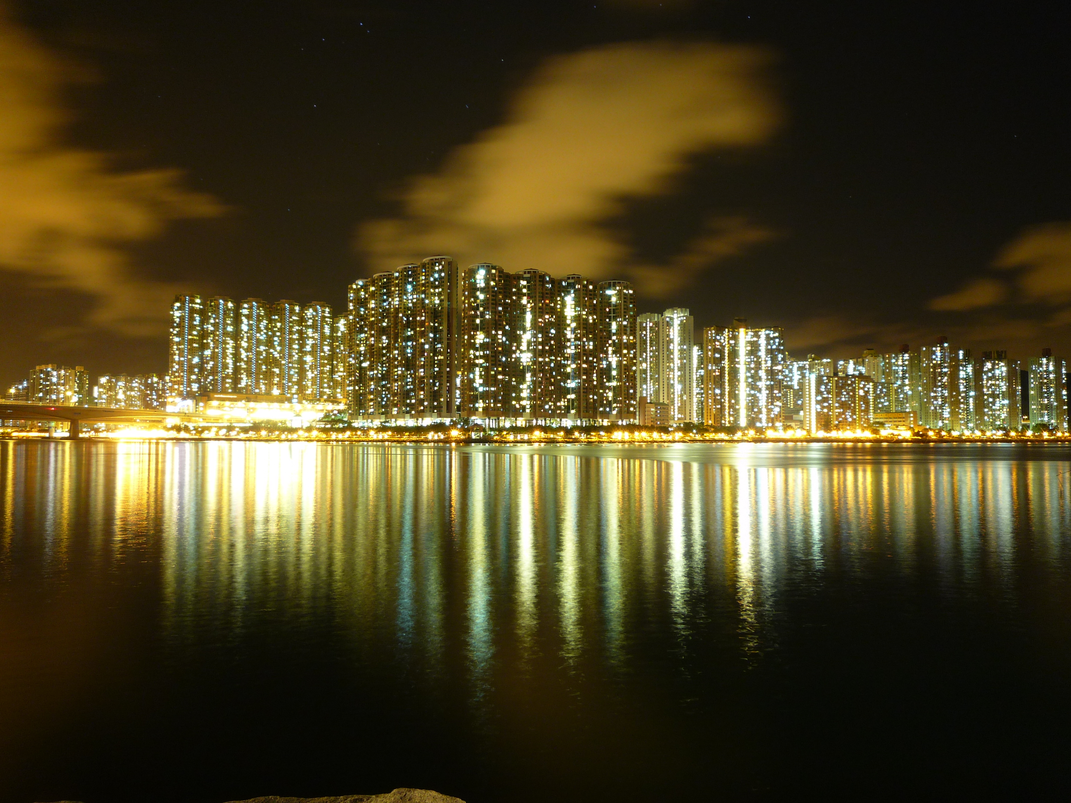 taken at Tsuen Wan Riviera Park, it shows Ching Tai Court, Cheung Fat Estate and Ching Wang Court on the right, Villa Esplanada at the center, Martime Square and Tsing Yi Bridge (North) on the left.